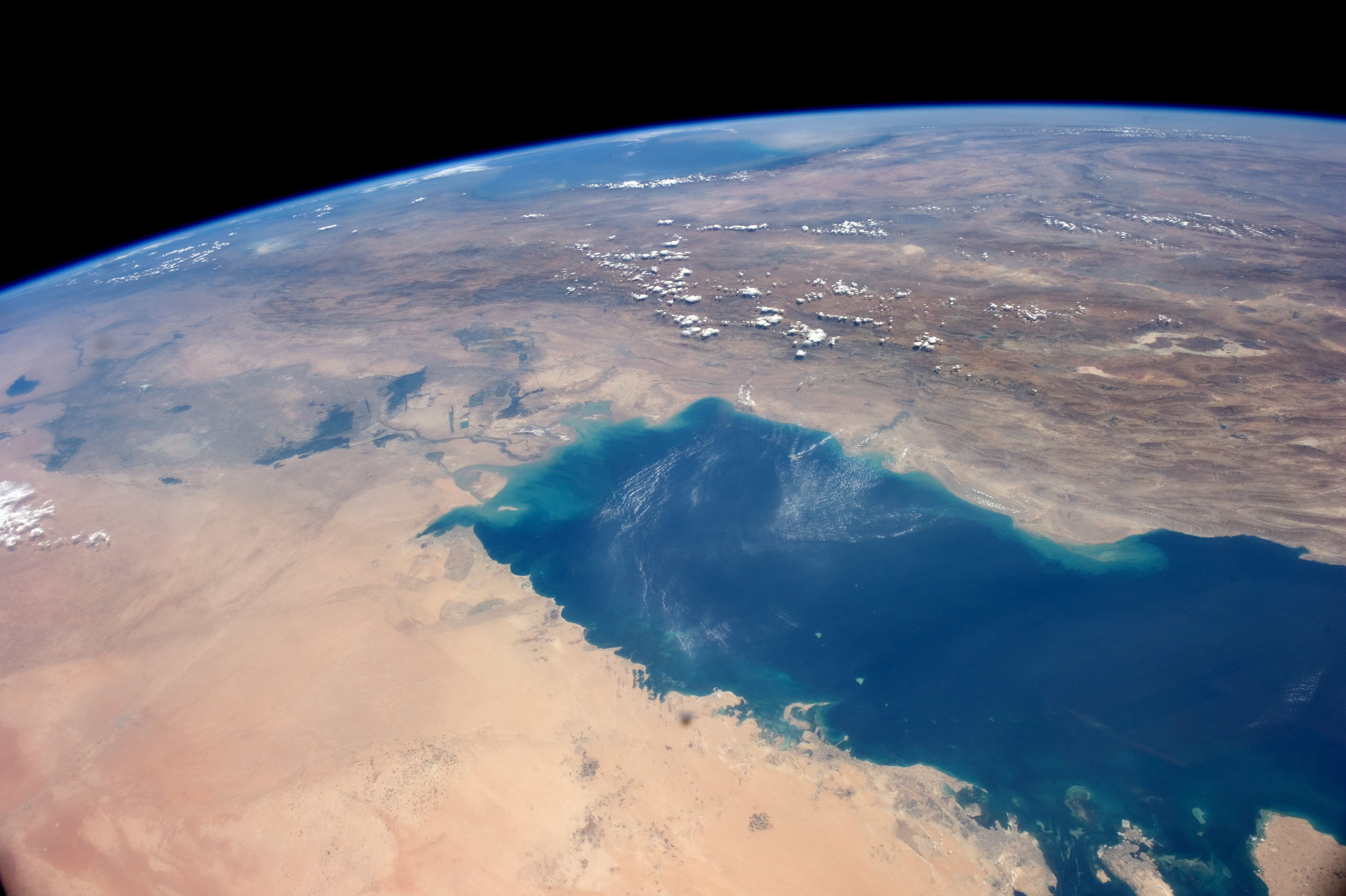 This panorama view, photographed by an Expedition 40 crew member on the International Space Station, shows the tropical blue waters of the Persian Gulf. Strong north winds often blow in summer, churning up dust from the entire length of the desert surfaces of the Tigris and Euphrates valleys (top left). Dust partly obscures the hundreds of kilometers of Iraq's light-green agricultural lands along these rivers (left). The Caspian Sea cuts the horizon.